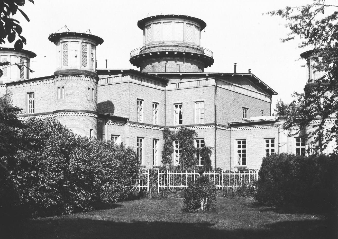 Sternwarte Bonn